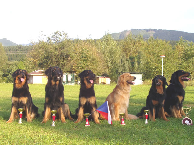 Class winners of Hovawart Special Dog Show, Varin, Slovakia 2005